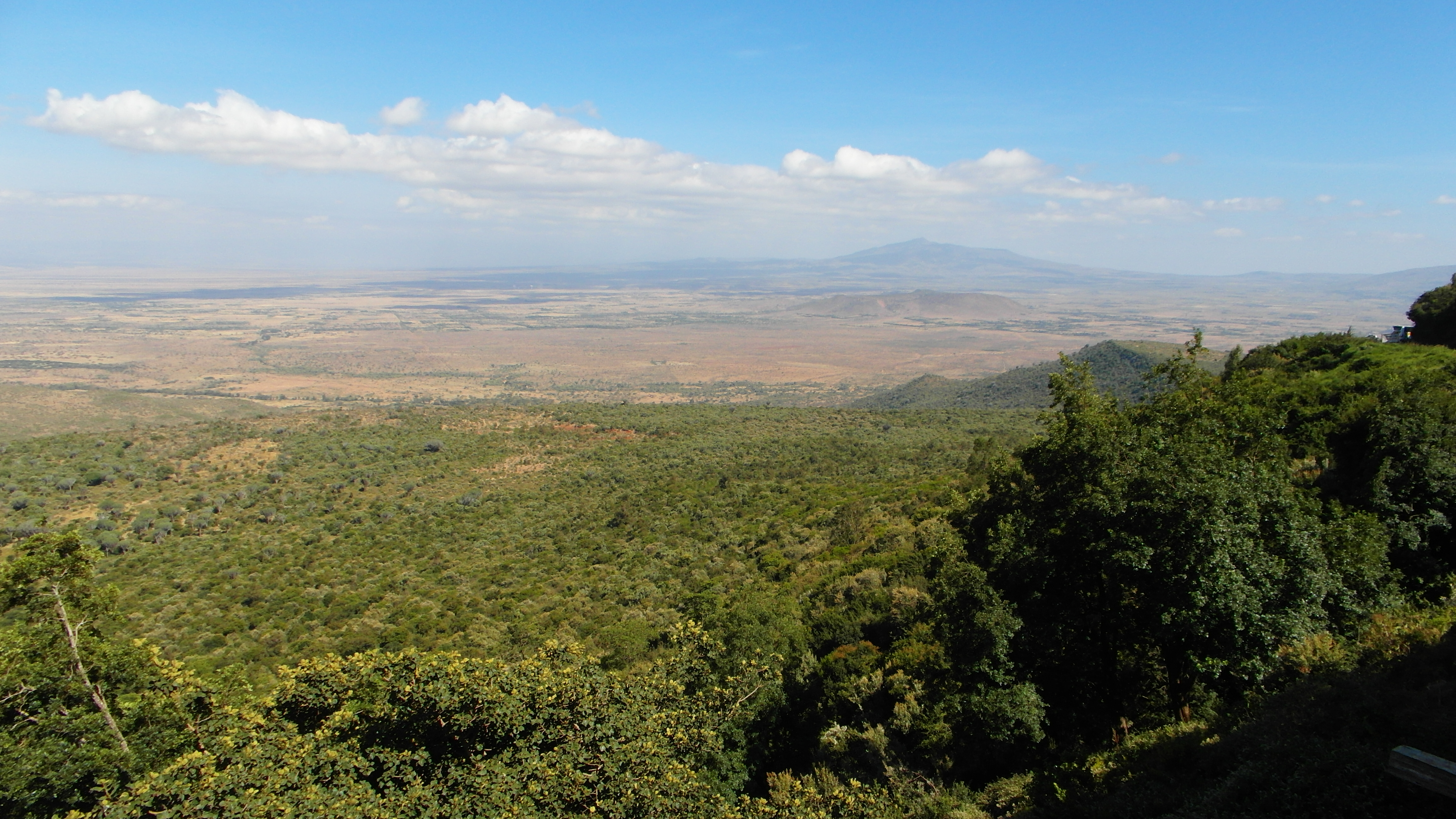 Kenya 2013. Rift Valley. Viewpoint.